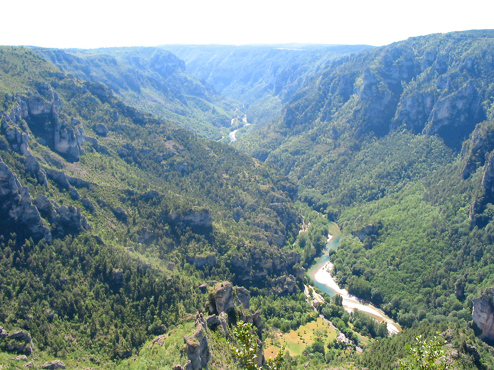 Saint-Georges-de-Lévéjac Lozère - France, the Gorges du Tarn - The cirque des Baumes seen from the point sublime.